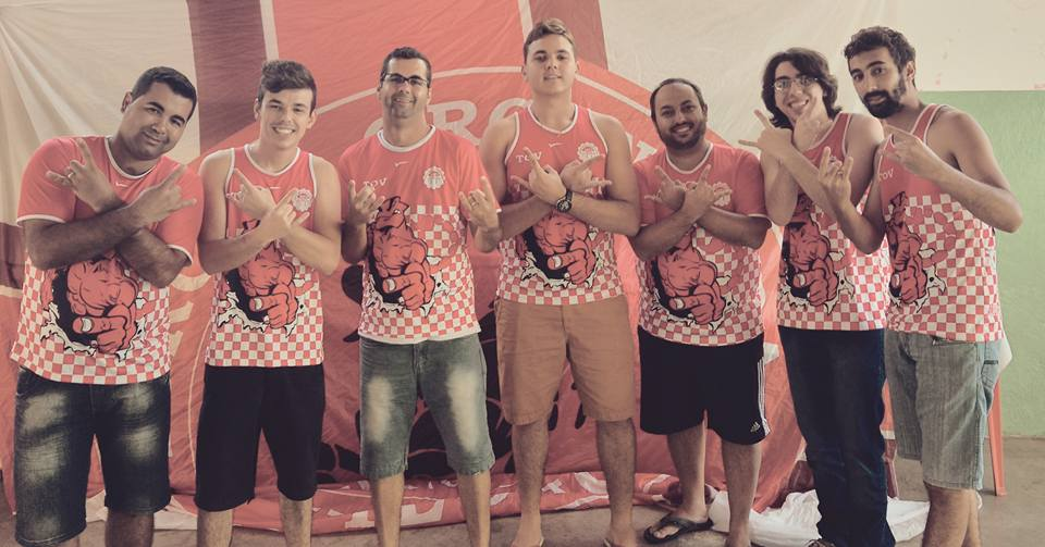 Viloucos, Organized Fans of Vilense.